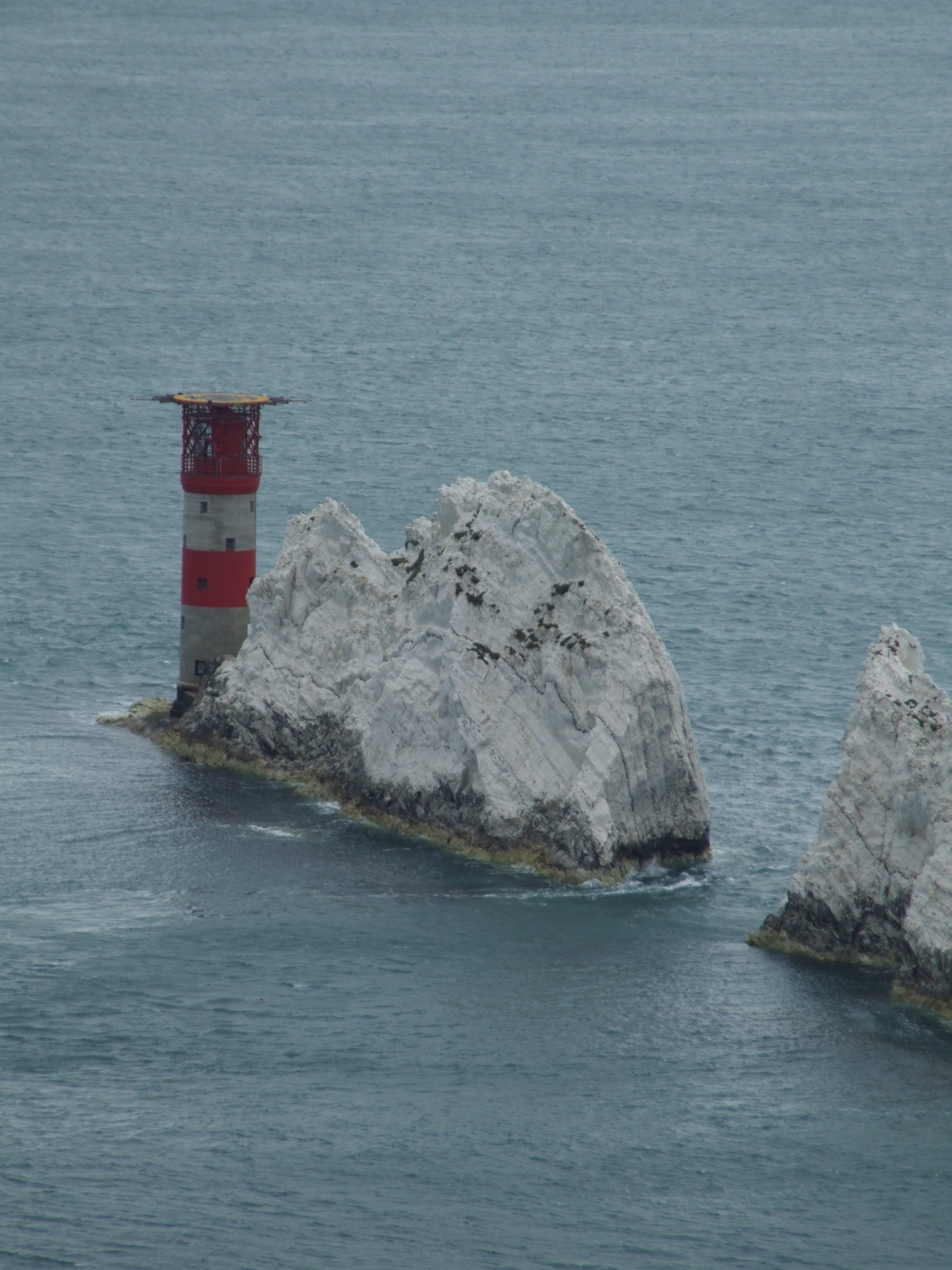 The Needles, Isle of Wight, UNITED KINGDOM